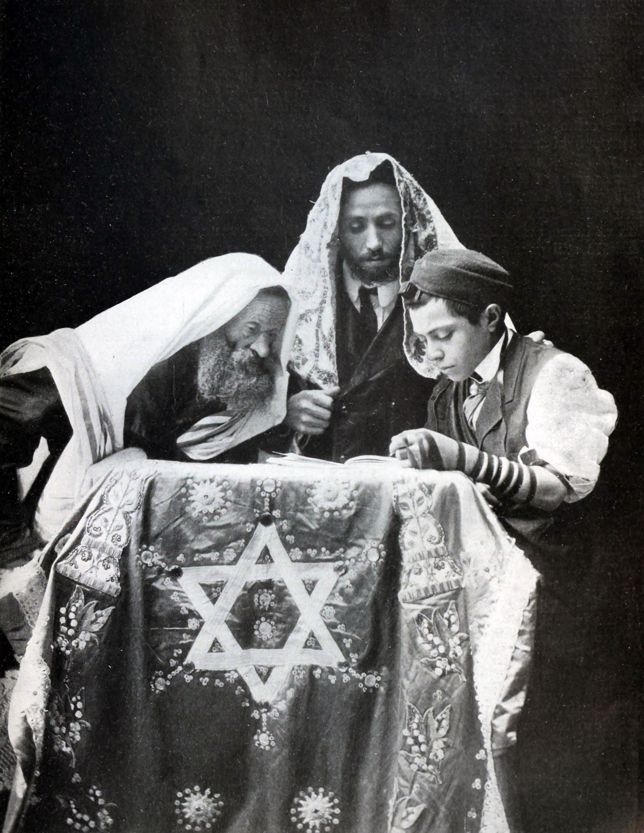 Jewish Confirmation circa 1900